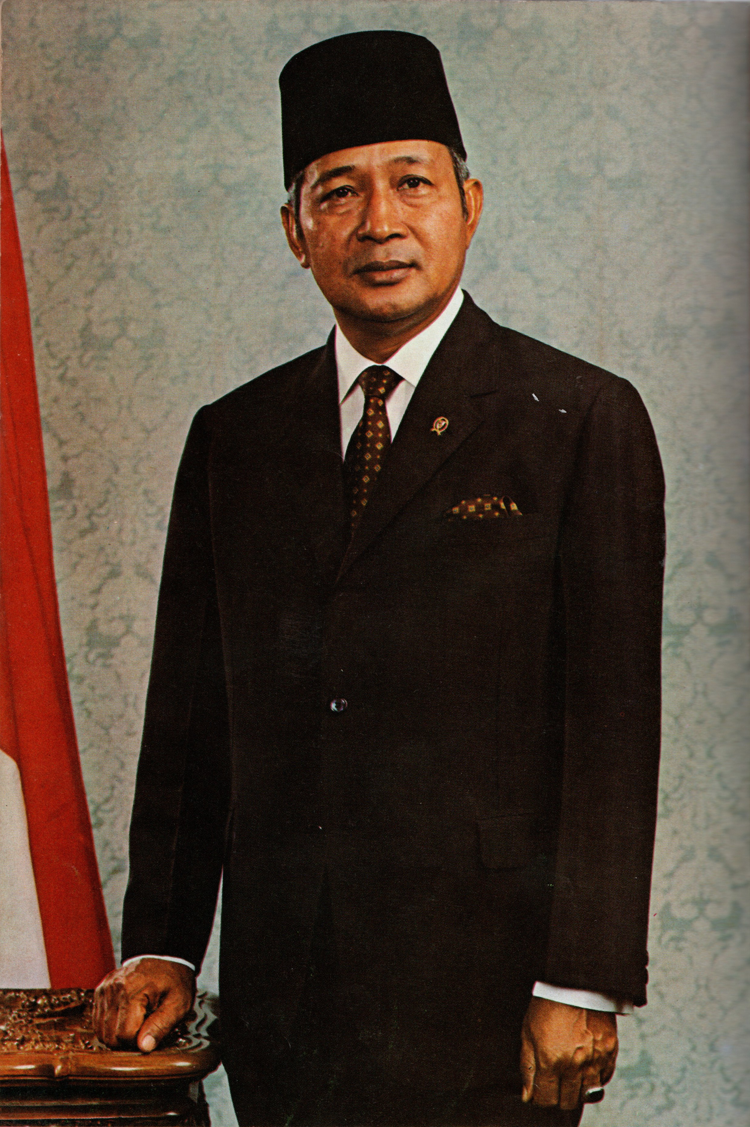 Soeharto as President of Indonesia, c. 1973